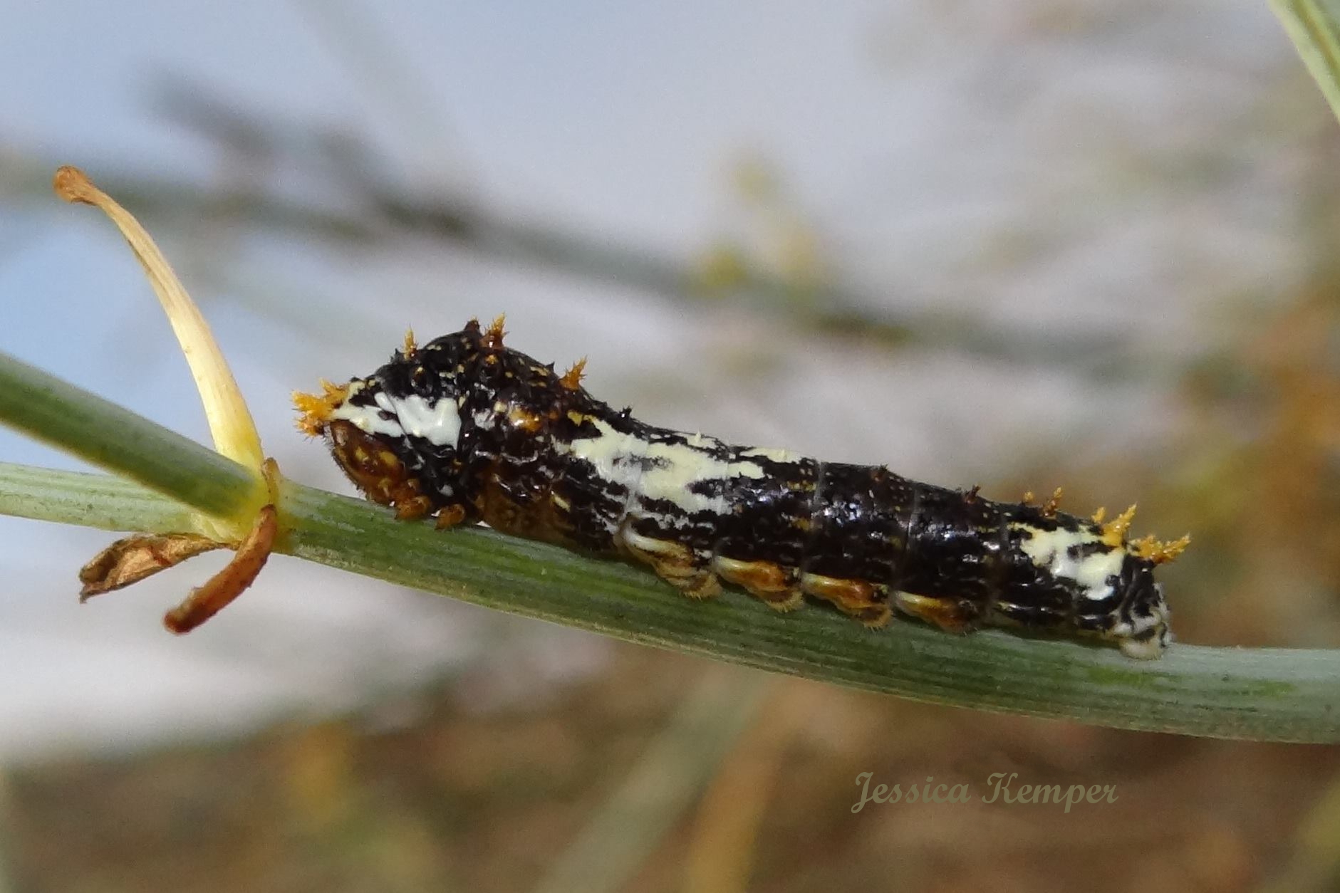 Larva of Papilio demodocus. The larva is probably about third instar. Colour and skin protuberances change as the metamorphosis approaches pupation. Lateral aspect.